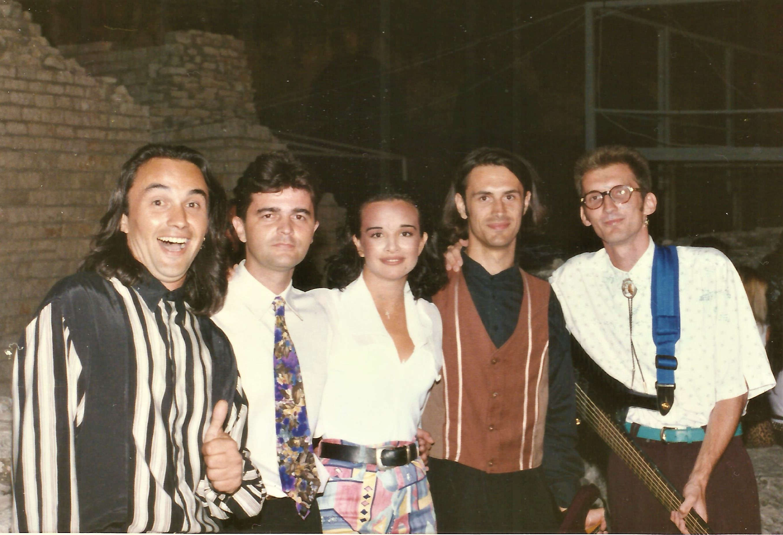 Kresimir Kastelan and bend Skorpioni before the concert at the Arena Pula 1993